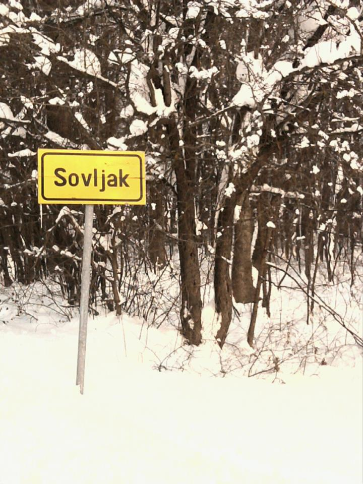 Sovljak